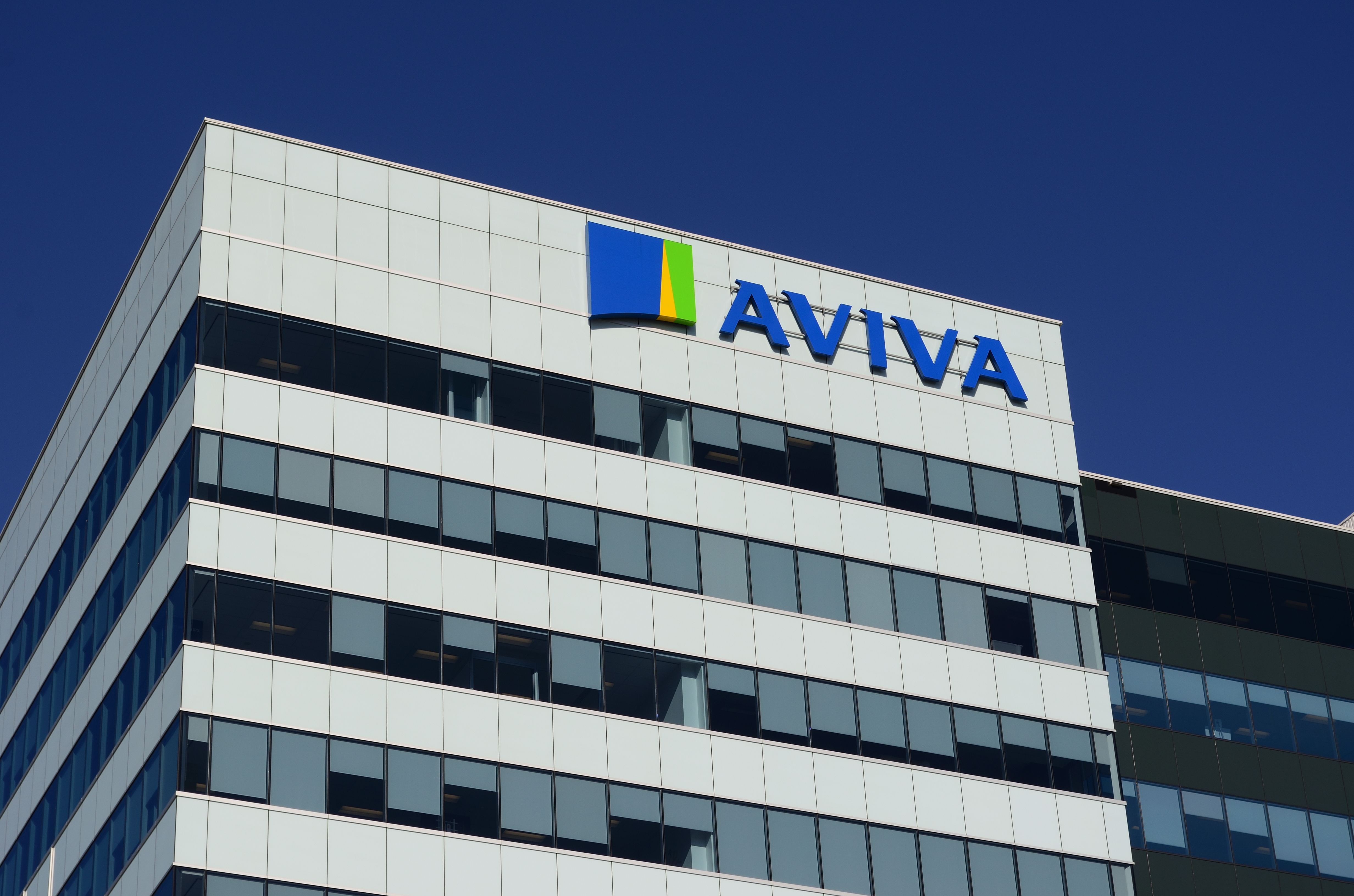 Aviva Canada Markham Headquarters - Address: Aviva Canada Inc, 10 Aviva Way Suite 100, Markham, ON L6G 0G1